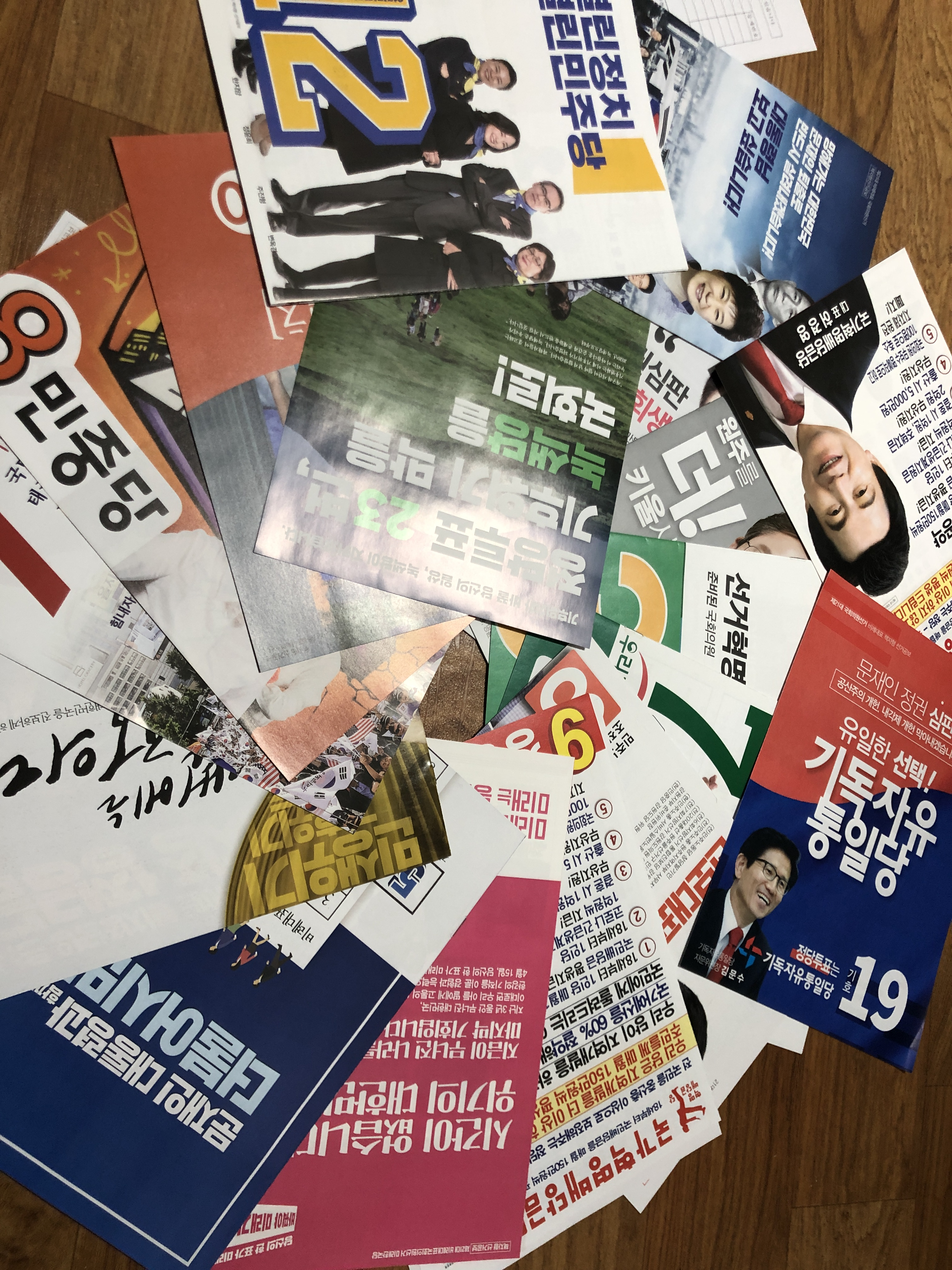 2020 South Korean legislative election notice and gazette